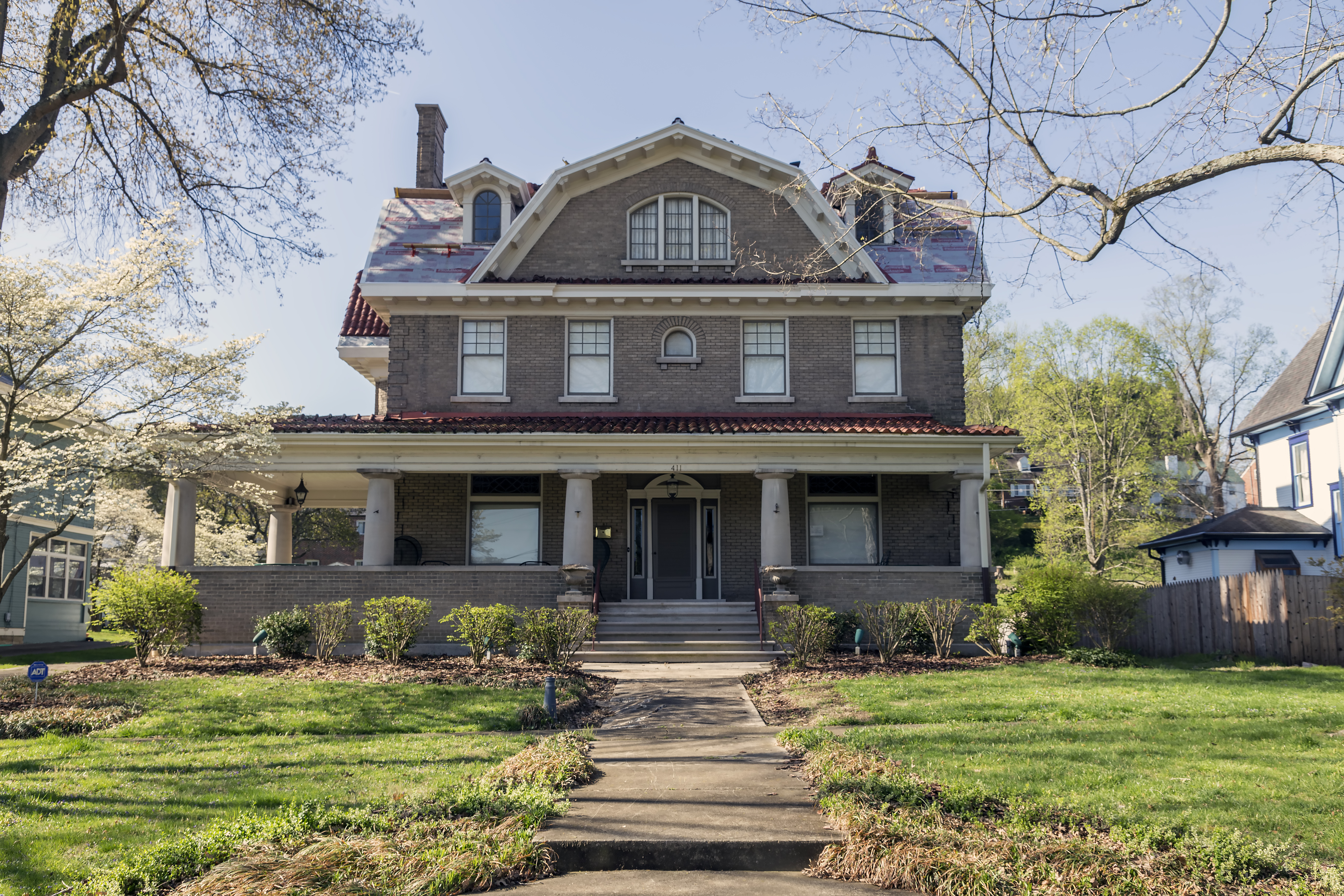 The James Weimer House in Saint Albans, West Virginia, USA